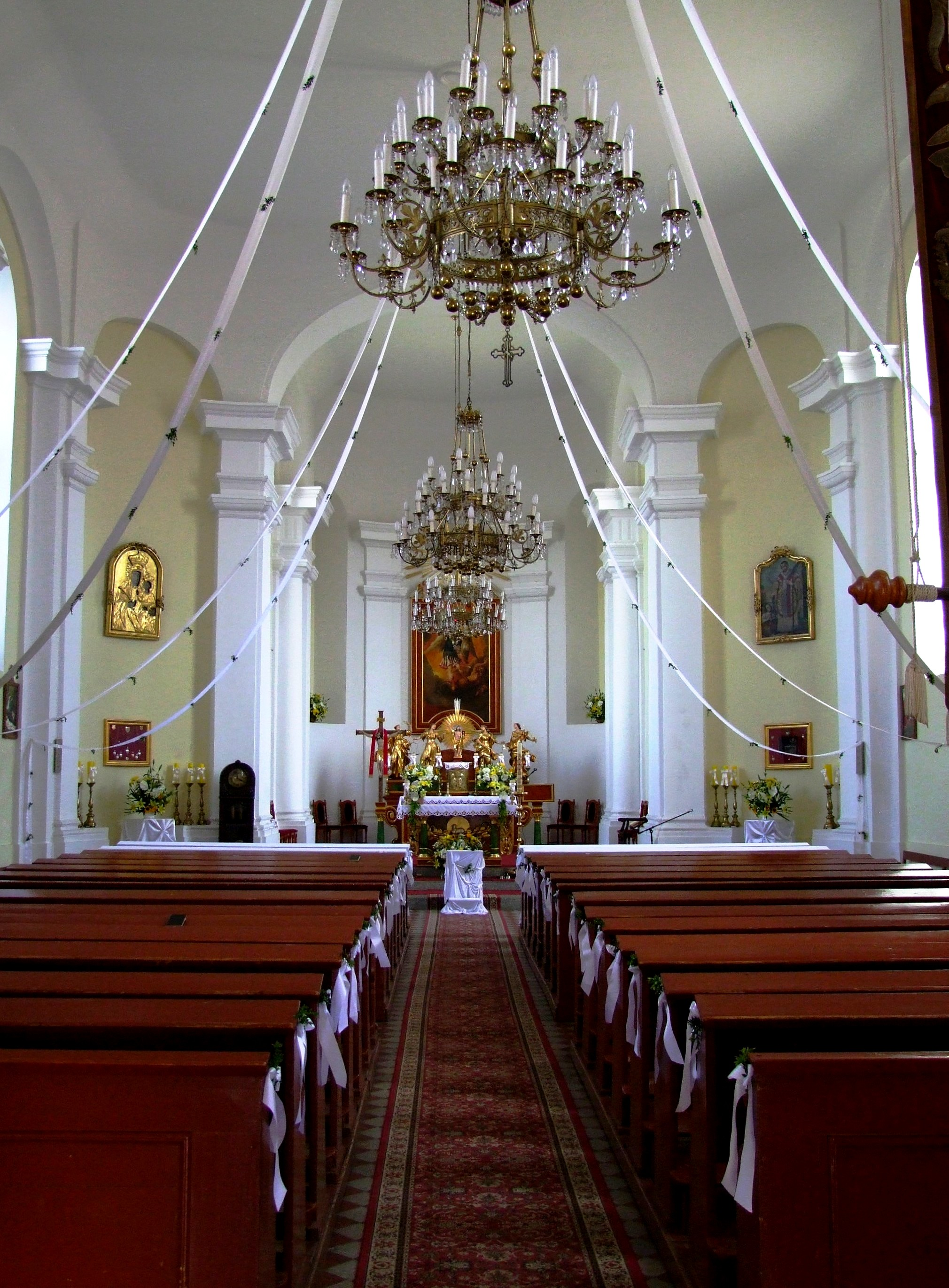 Saint Michael the Archangel church in Uraz-interior.